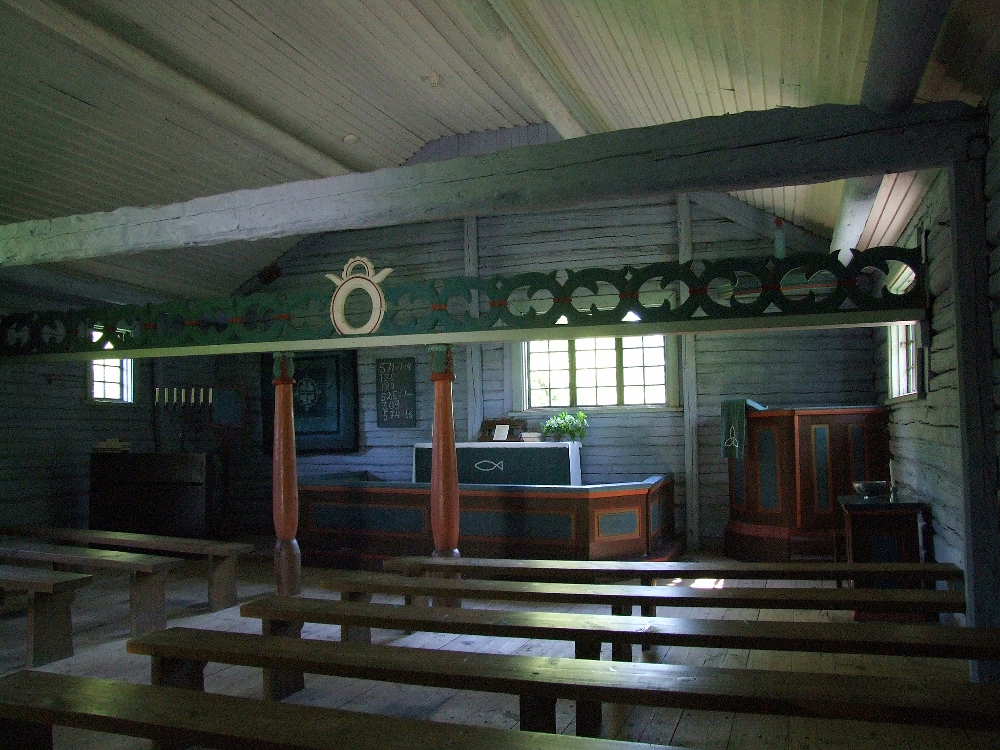 Interior of the Turkansaari church in the Turkansaari Open-Air Museum in Oulu, Finland.